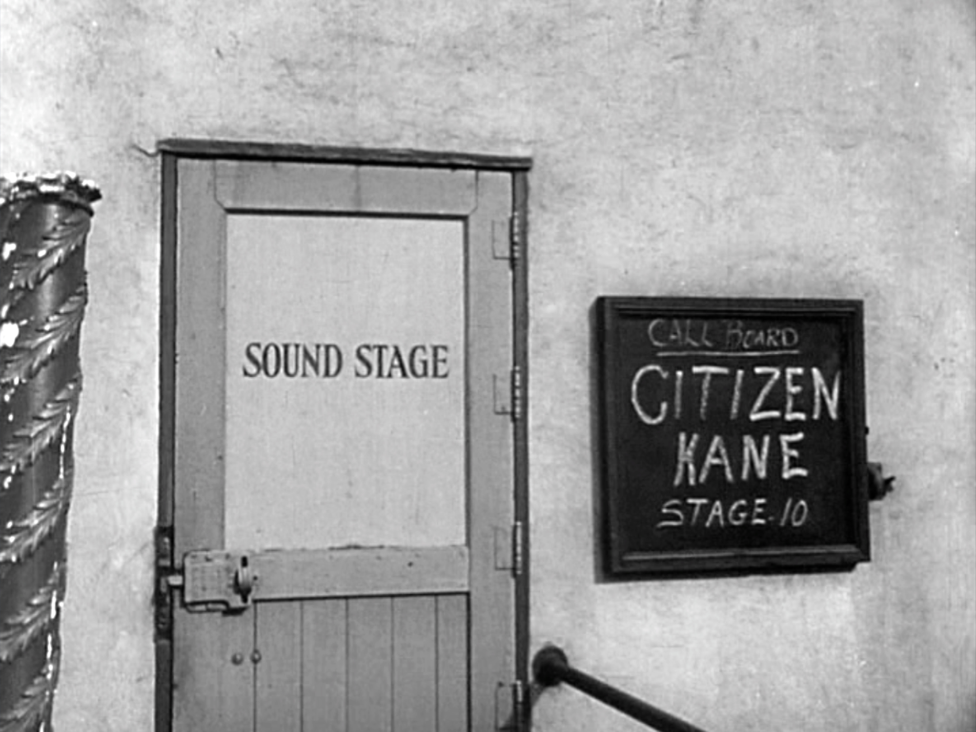 Screenshot of the sound stage entrance from the Citizen Kane trailer